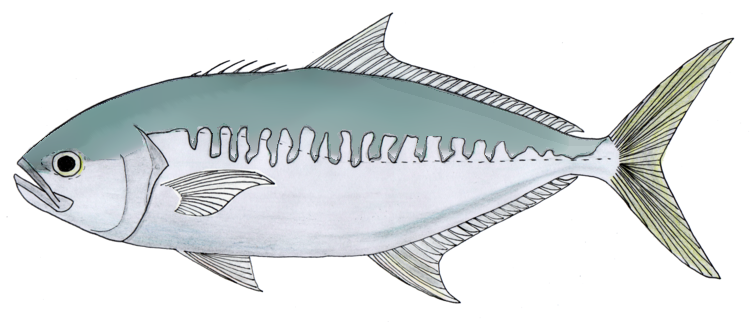 Hand drawn and coloured image of the vadigo, Campogramma glaycos. based on photographs